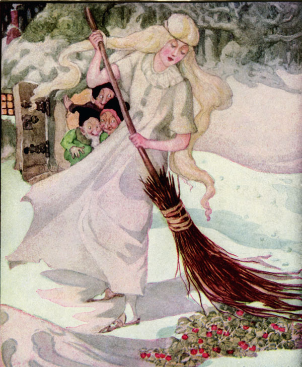 Old, Old Fairy Tales: "The Three Dwarfs" by Anne Anderson. The Three Dwarfs in the Wood...